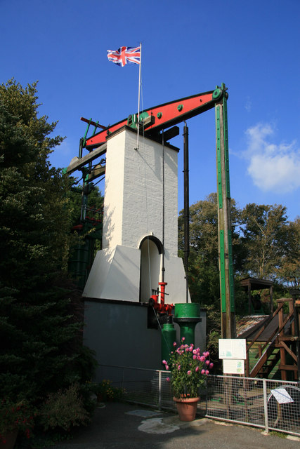 Poldark Mine This is the Cornish beam pumping engine from Greensplat China Clay Works. I am pretty sure that its house has been consumed by the expansion of the clay works. It is demonstrated here in slow motion with a hydraulic ram acting on the beam.